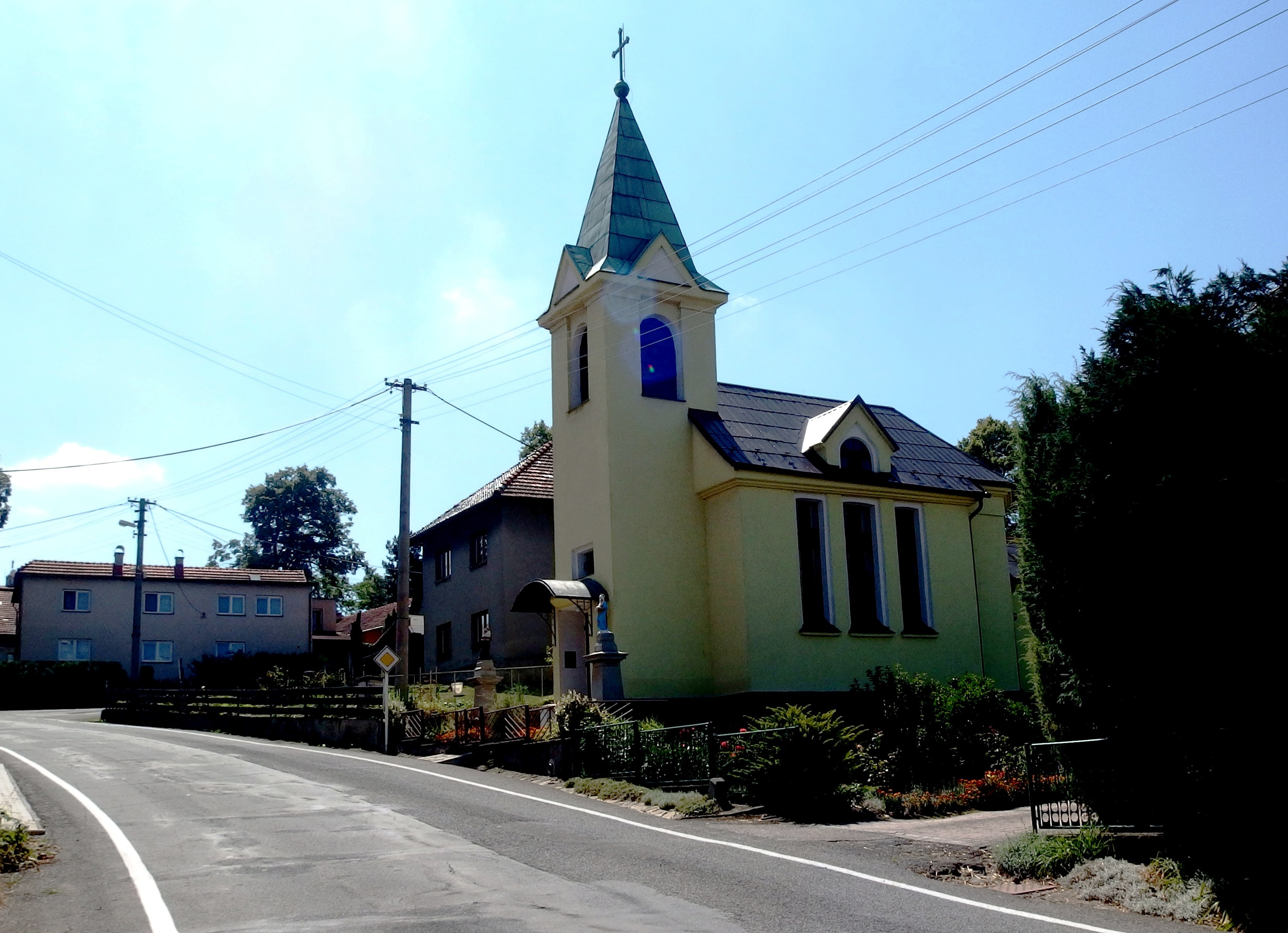 Starý Jičín, Nový Jičín District, Czech Republic, part Janovice.